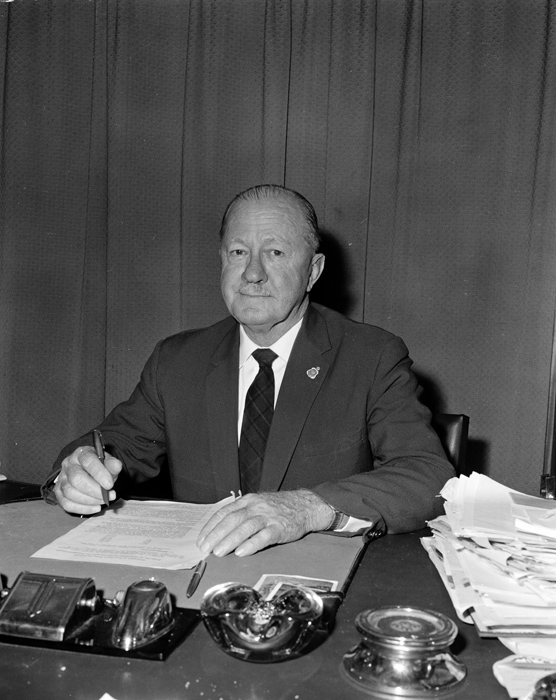 A 1962 black and white portrait of Charles Davidson, MHR for Dawson